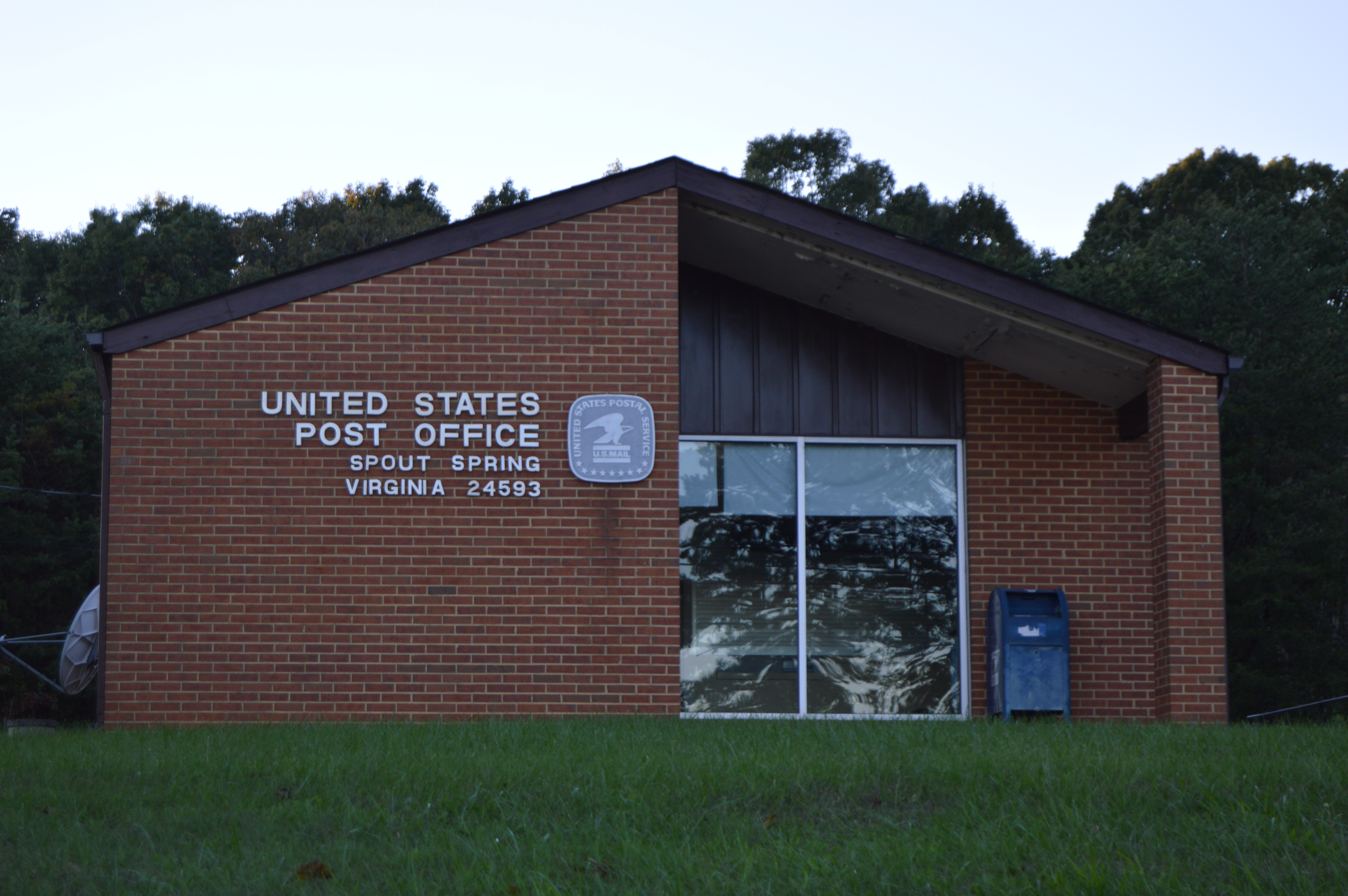 Front of the Spout Spring post office, located on Spout Spring Road at Spout Spring in Appomattox County, Virginia, United States.